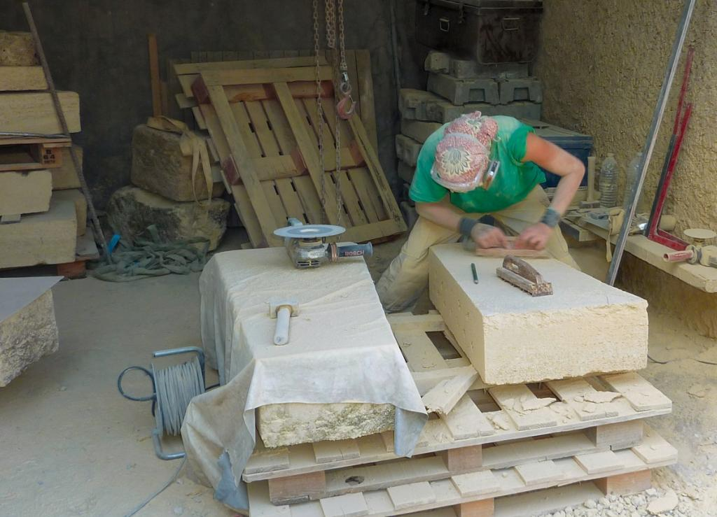 the stone-cutter in action in her workshop; she size one of the 40 stones.